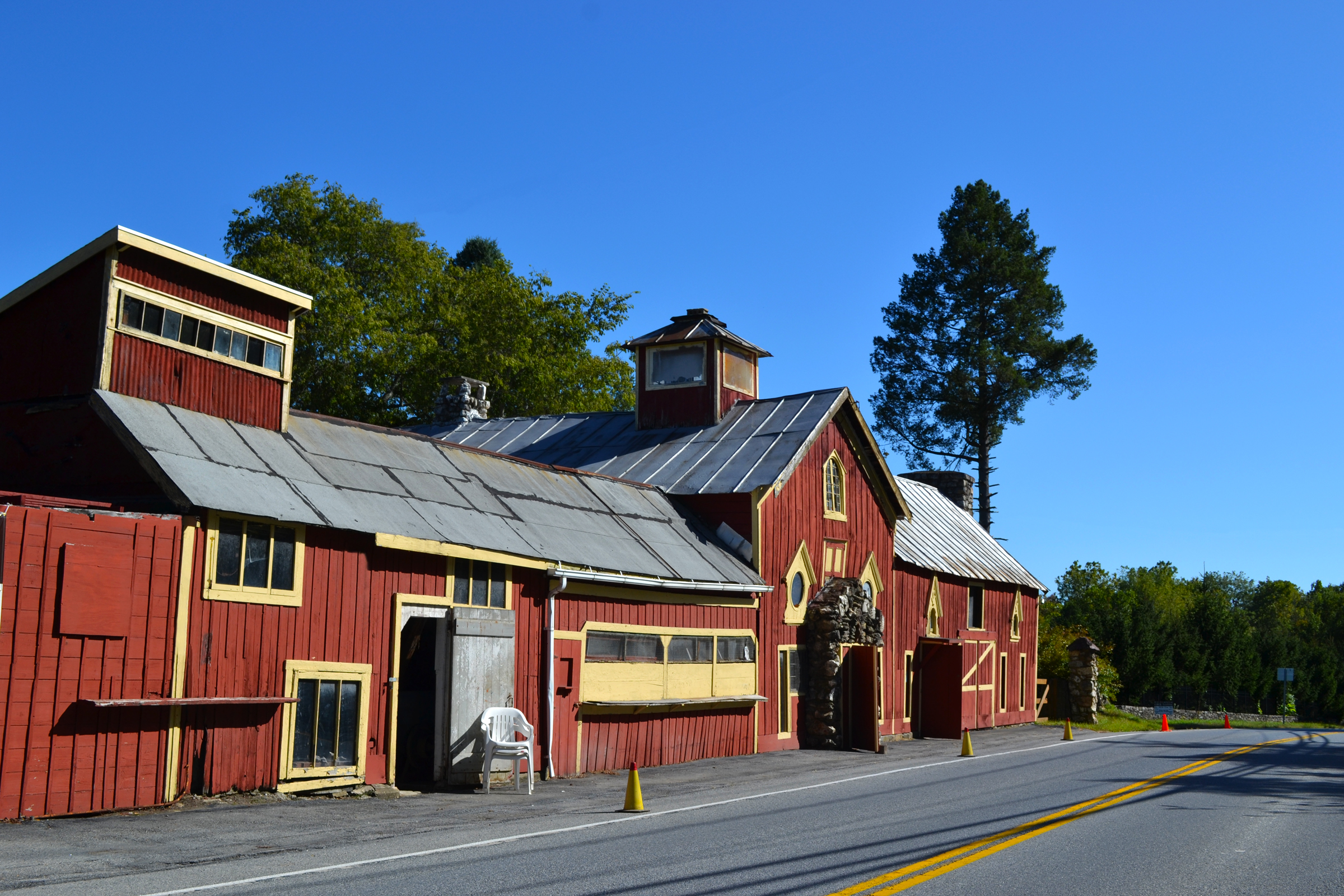 Western (front) profile of Kimlin Cider Mill, Poughkeepsie, New York.